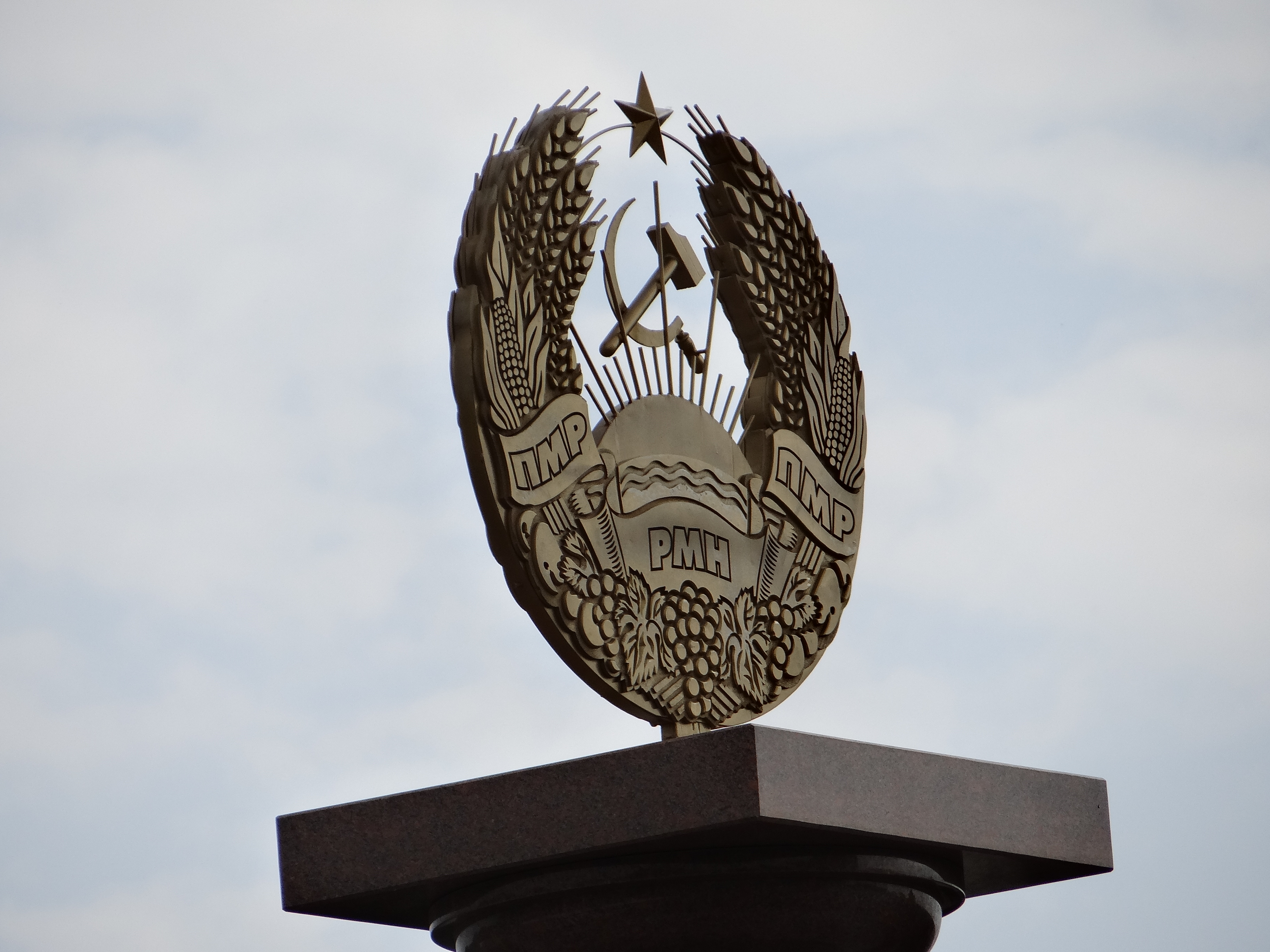 National Crest on Plinth - Bendery - Transnistria